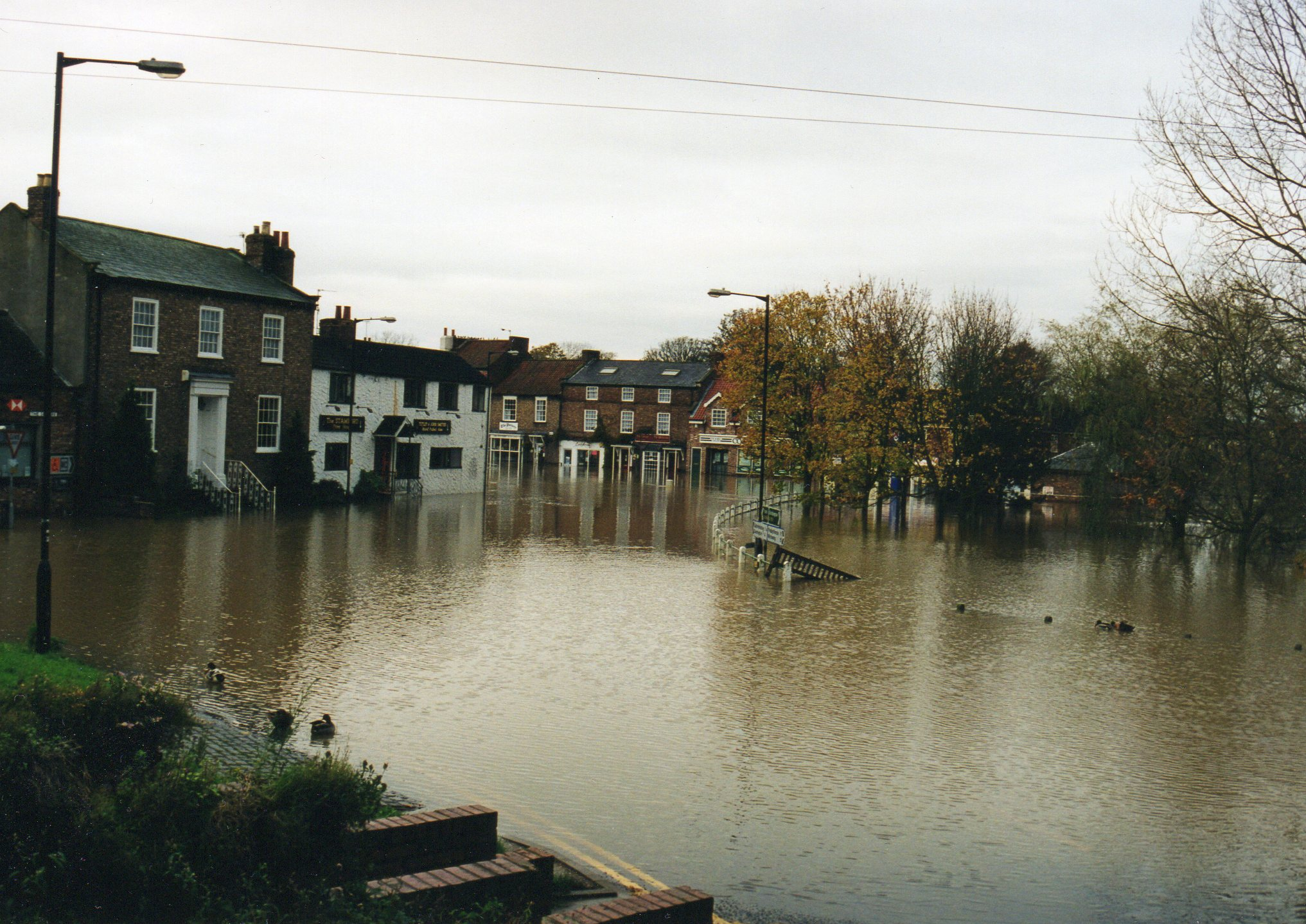 Stamford Bridge, East Riding of Yorkshire, England.Flood, October 2000.